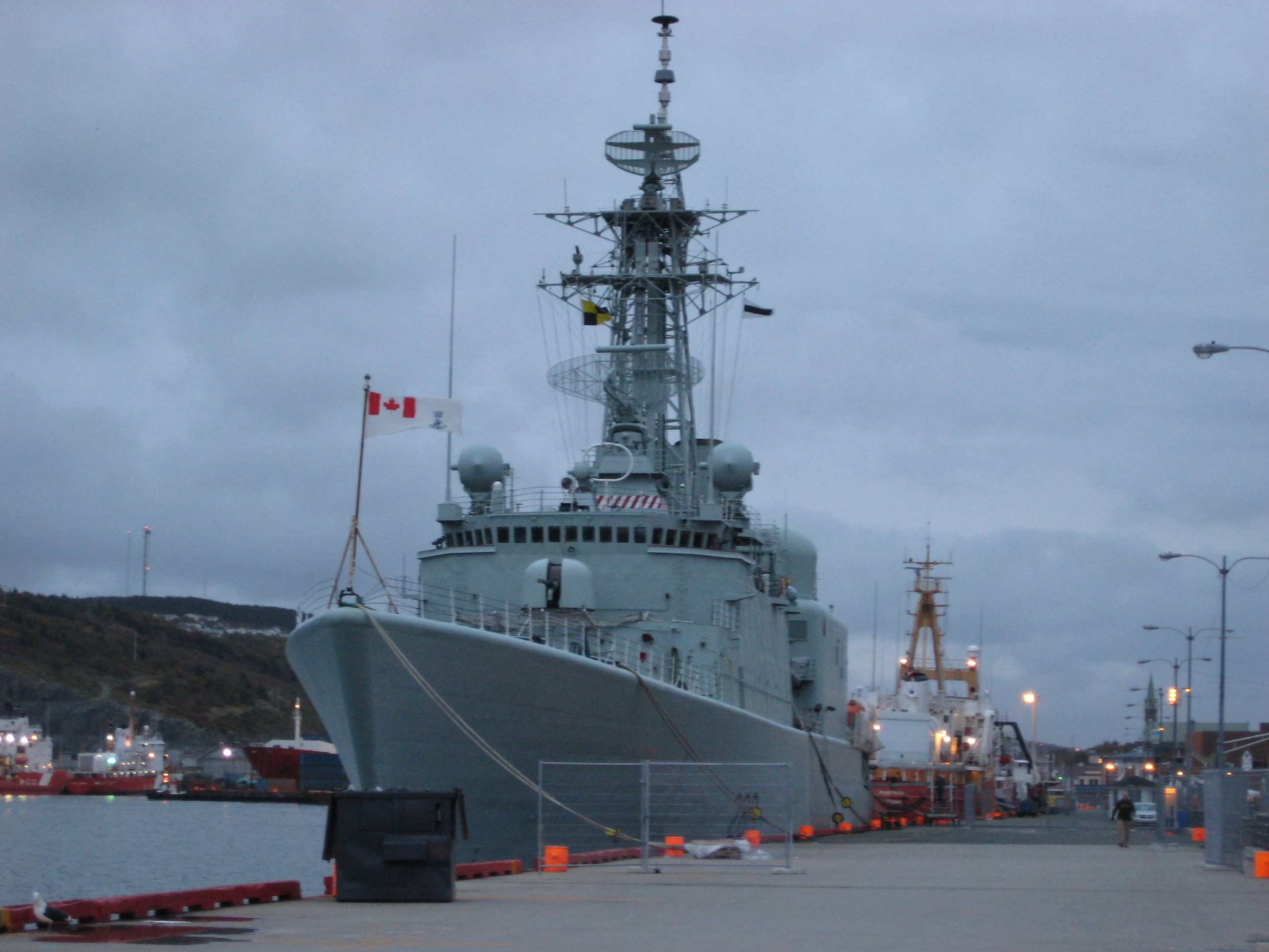 HMCS Iroquois